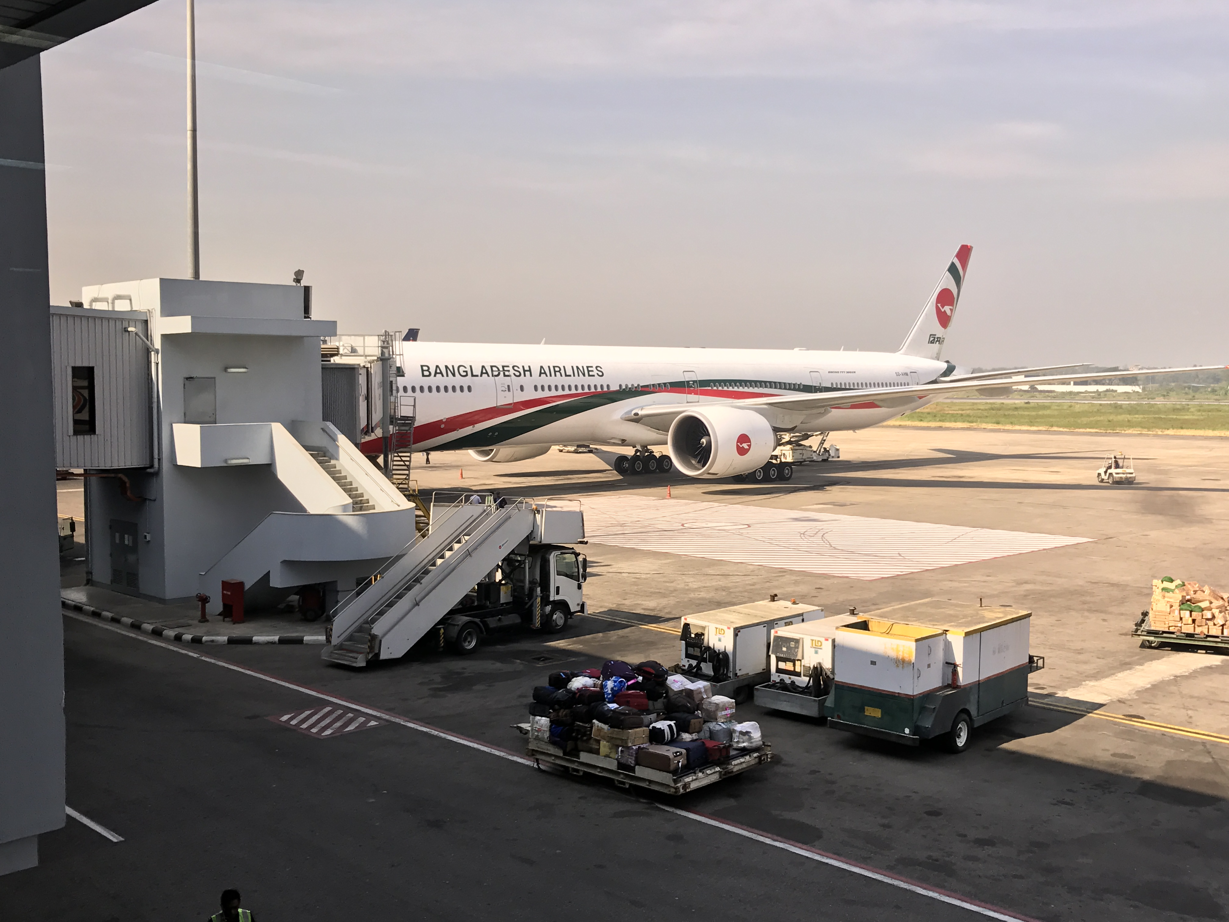 Boeing 777 for Bangladesh Airlines in Shah Amanat International Airport, Chittagong City.